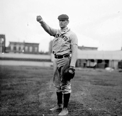 Pop Williams, former Major League Baseball pitcher.